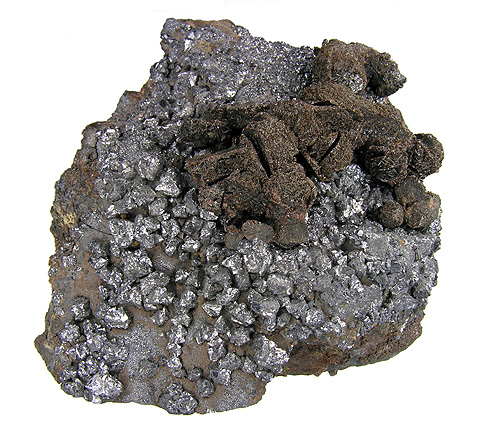 Wurtzite Locality: Potosí Department, Bolivia (Locality at ) Size: 9.2 x 8.6 x 3.5 cm. A very interesting and unique Wurtzite specimen. The piece consists of lustrous, chocolate brown, crystallized "casts" after an unknown mineral which are associated with bright silvery Galena crystals on matrix. These specimens came out around 2002, and I only saw a few of them. I was never able to obtain an accurate locality, but it is certainly attractive for the species, and one of the most unusual Wurtzites that I have seen from Bolivia.